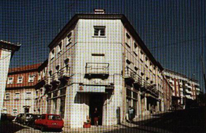 AHBVPA-Quartel02